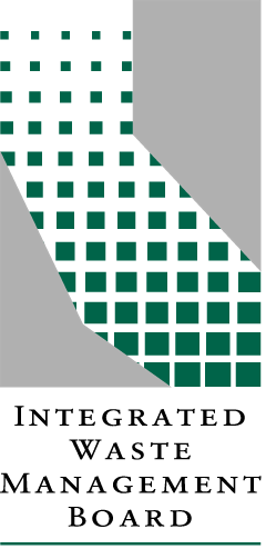 Logo of the former California Integrated Waste Management Board (CIWMB).